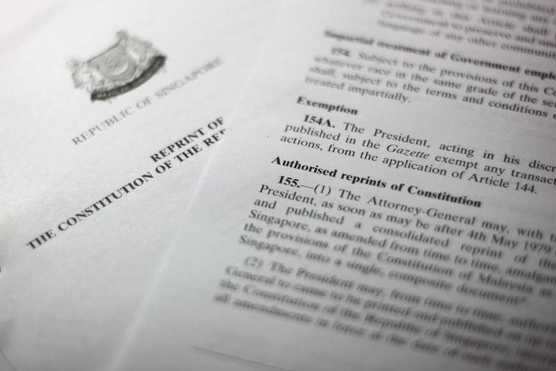 Article 155 of the Constitution of the Republic of Singapore (1999 Reprint).